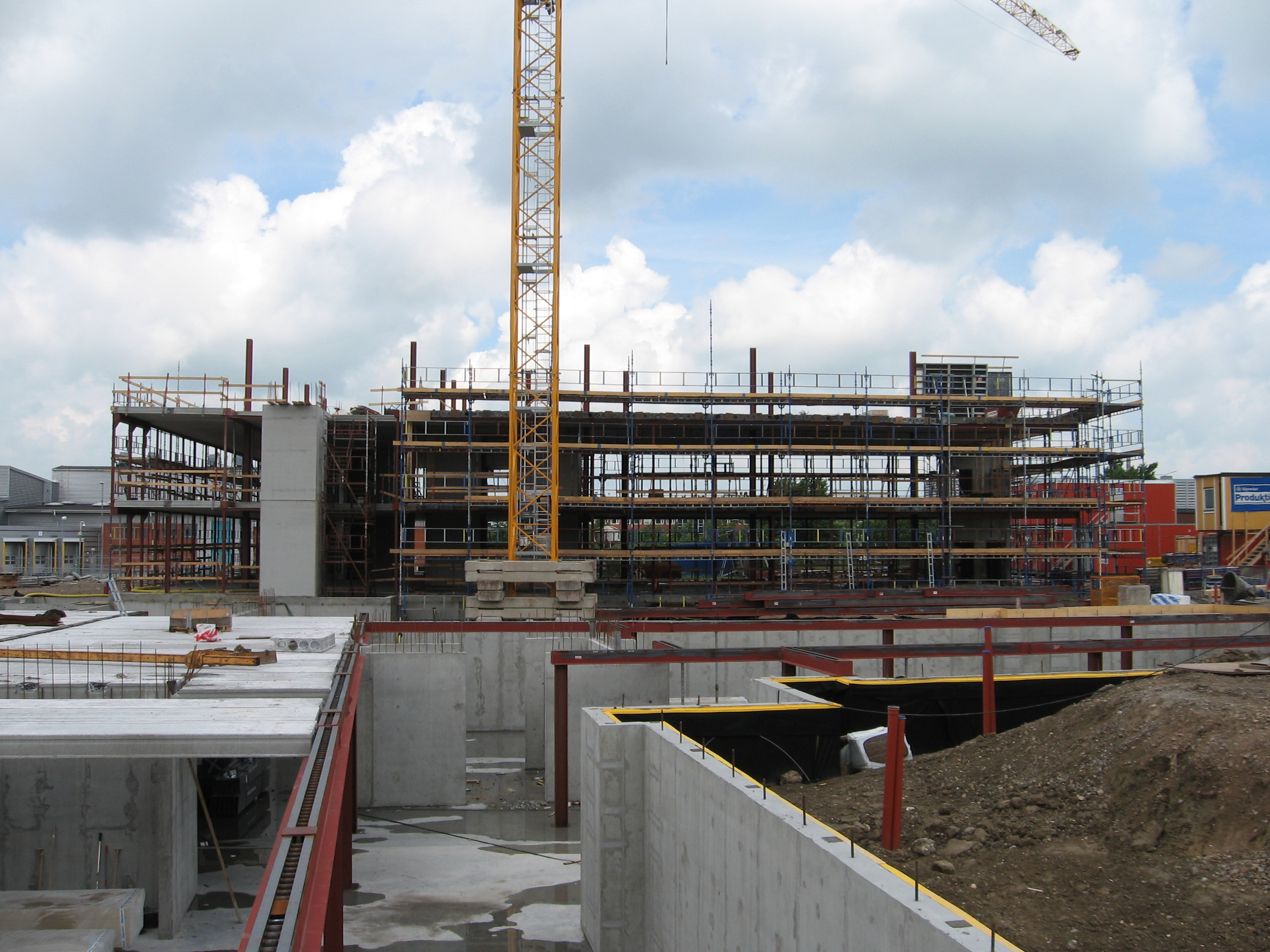 SWT-girder Edison Park Lund